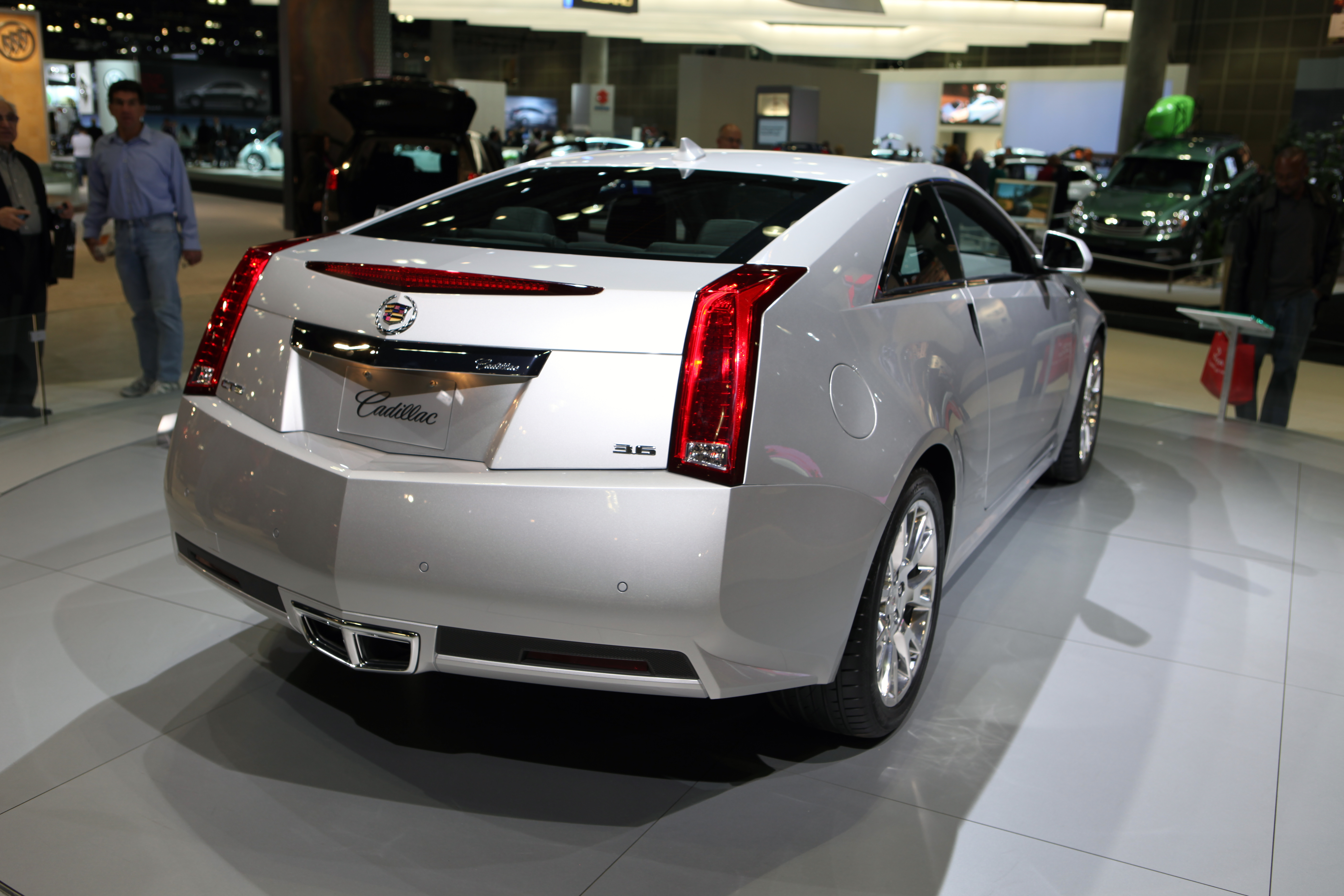 Cadillac CTS Coupe at LA Auto Show 2009.